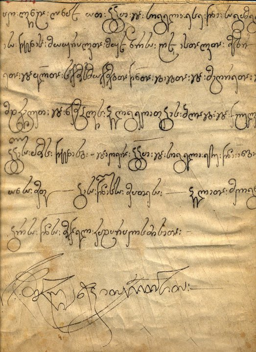 Order of King George IV Lasha of Georgia